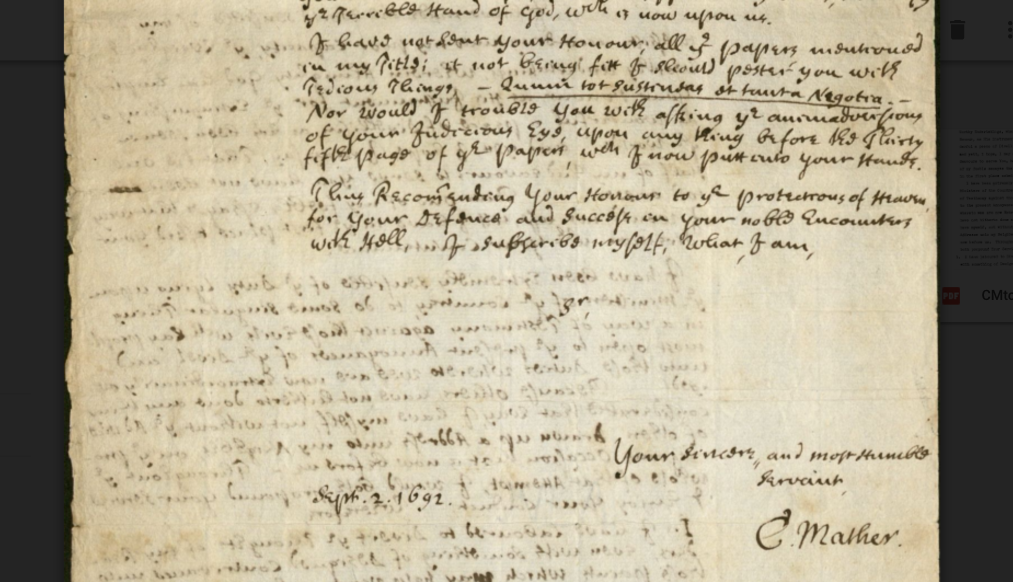 Cotton Mather's dated signature. The final paragraph welcomes Stoughton to skip the first 35 pages of the work CM sends him, an early draft of Wonders.